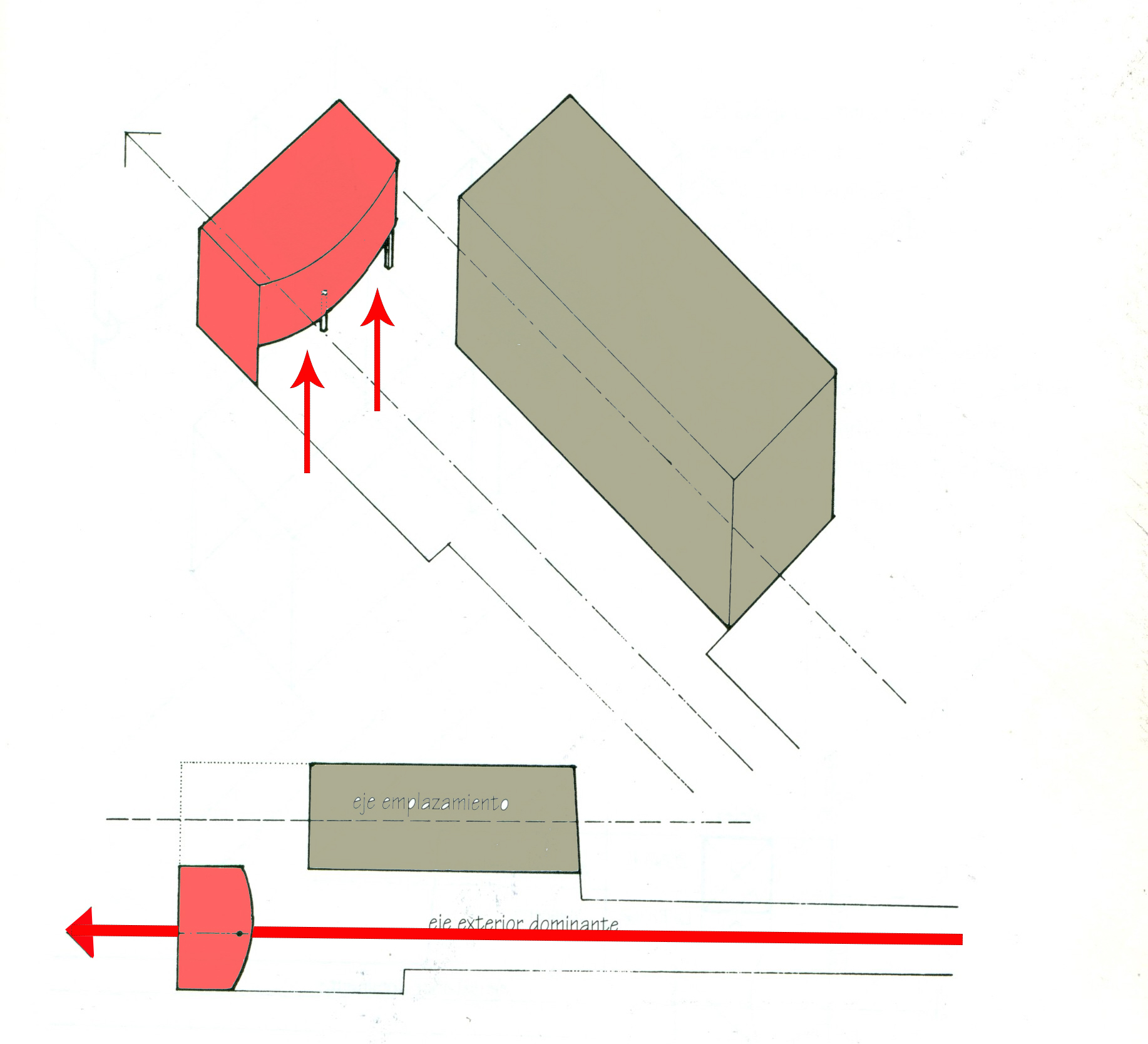 Contraste